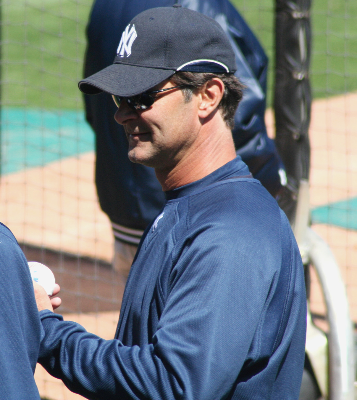 Photograph taken by Googie Man